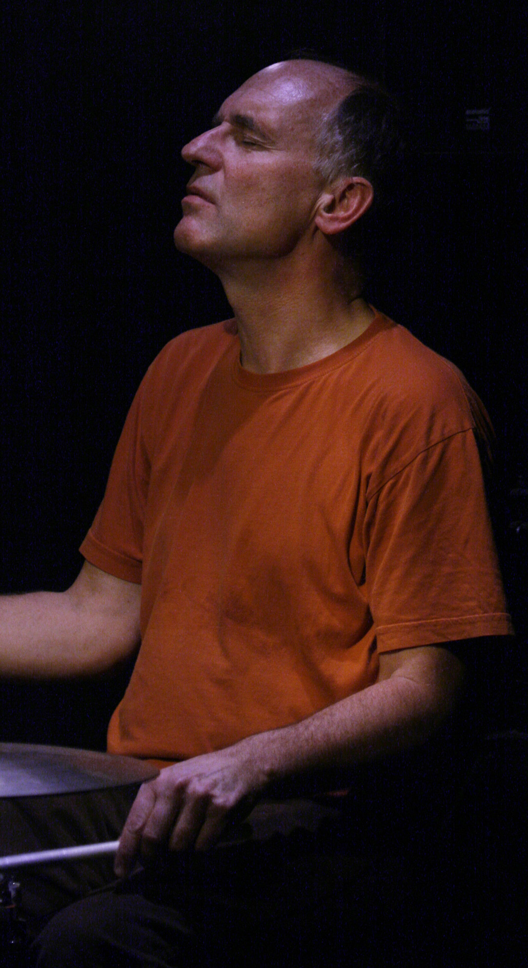 Wolfgang Reisinger during a session with Andy Manndorff (g.) and Lisle Ellis (b.) at the Blue Tomato in Vienna (Austria).